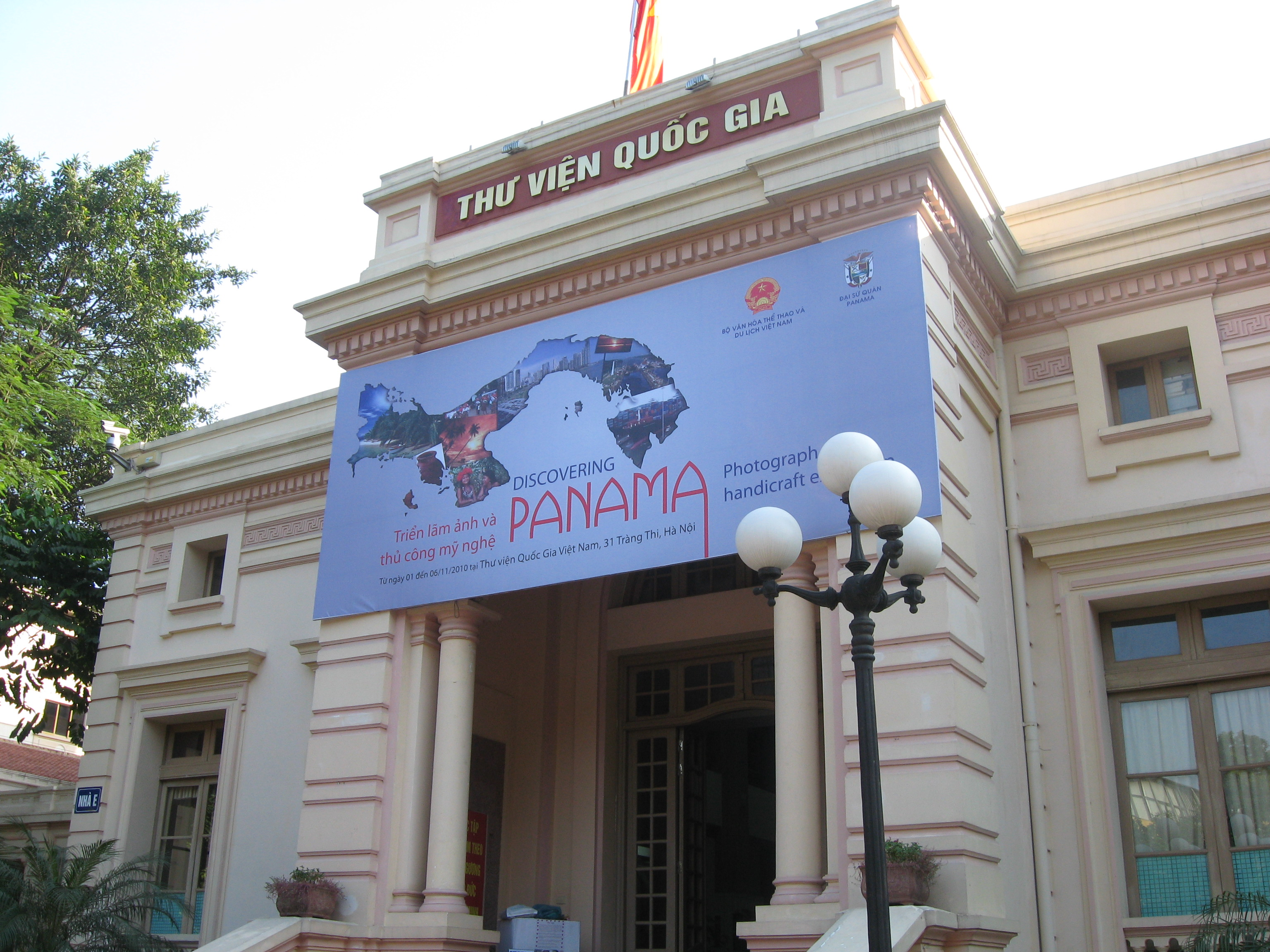 National Library of Vietnam